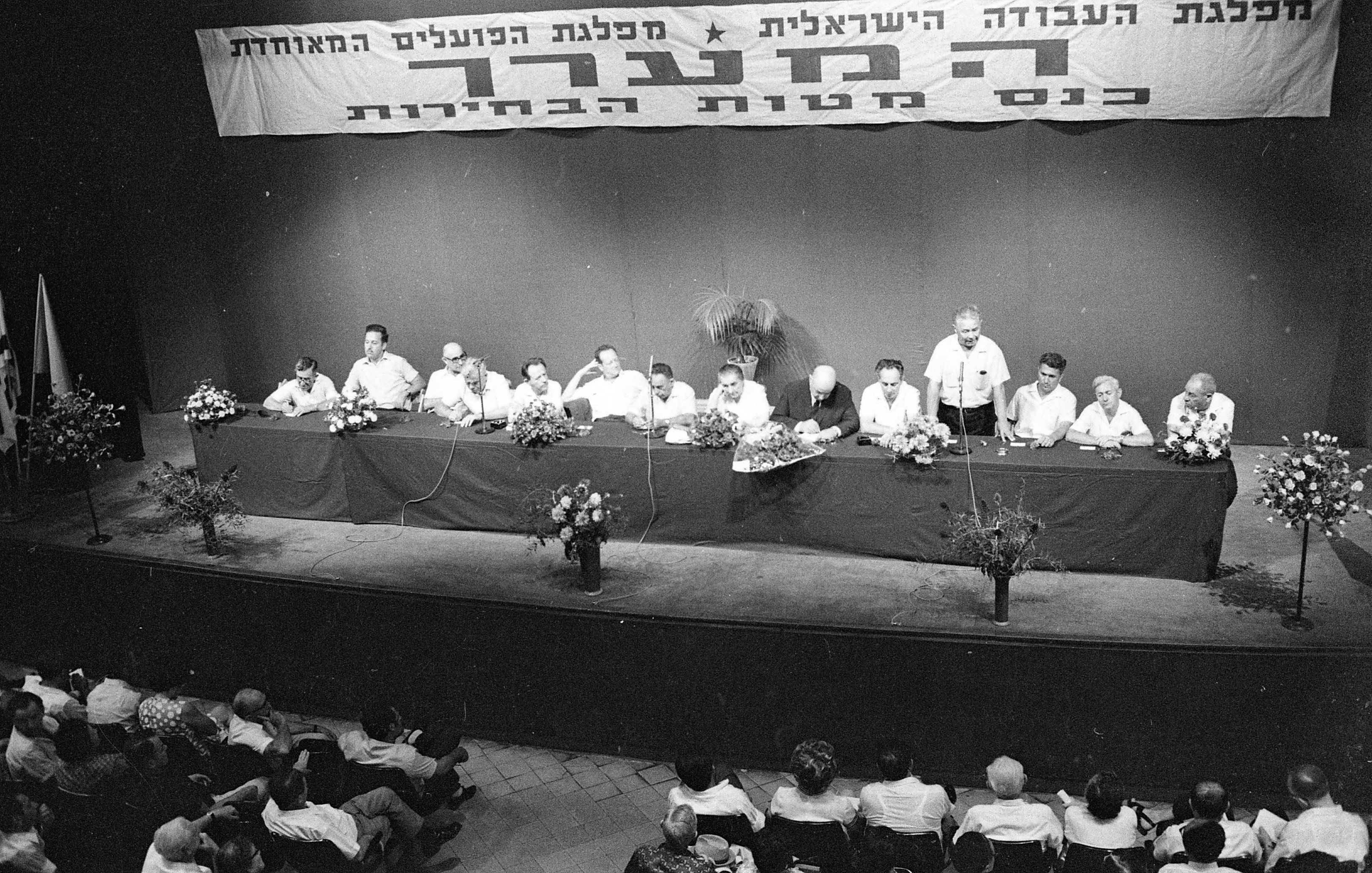 The Labor Party in preparation for the Party's elections.